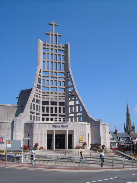 Central Church, Torquay. Built in the early 1970s for the United Reformed Church and funded from the sale of two Baptist church sites in Torquay. Pevsner and Cherry call the pierced screen wall facade "forceful but rather crude". The church is at the junction of Tor Church Road and Tor Hill Road where they form a crossroads with Abbey Road. Behind on the right is the spire of St Mary Magdalene, close to Castle Circus.